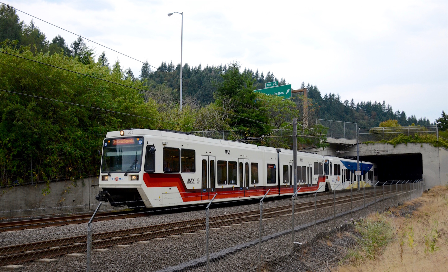 The south portal of the MAX Red Line's I-205 tunnel, with a southbound (Beaverton-bound) train. The tunnel takes the MAX tracks from the middle of the freeway (at the opposite end of the tunnel) to the east side of the freeway. It was built in the late 1970s for future use as part of a transitway (predicted at the time to be a busway) but stood unused for more than 20 years until outfitted in 2000 for use by the MAX light rail system's Red Line. Its existence significantly reduced the cost of building the light rail line. The train seen here was composed of two Siemens SD660 cars (Type 2 car 236 and Type 3 car 304), the most common type of MAX car (79 cars in a total fleet of 145 MAX cars as of 2018). Rocky Butte is visible in the background.